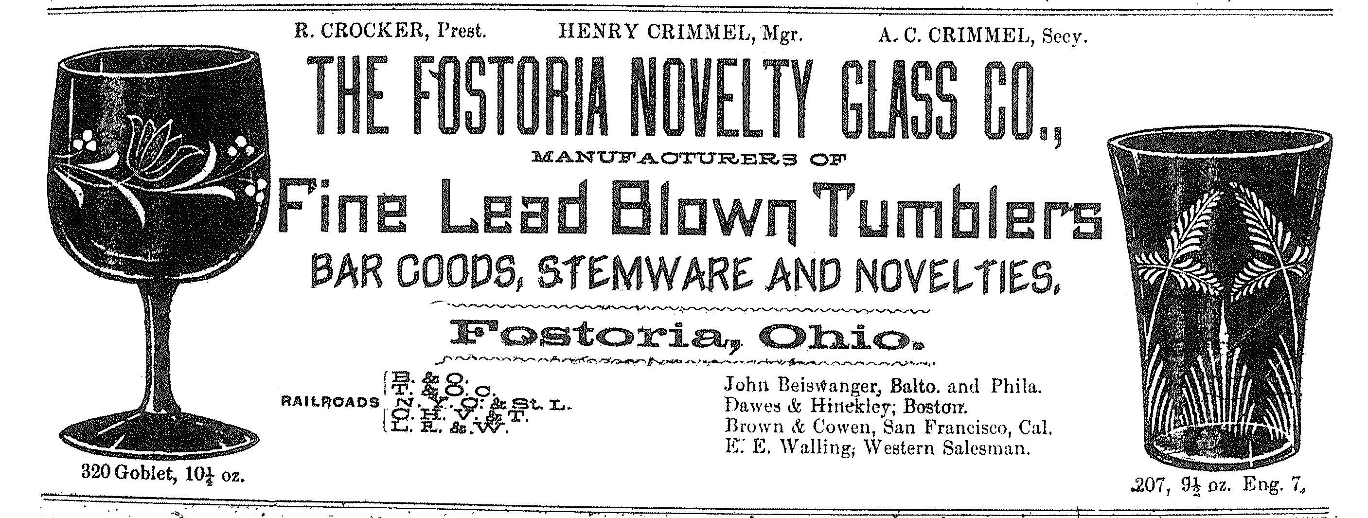 This is an advertisement by the Novelty Glass Company of Fostoria, Ohio from China, Glass and Lamps magazine. Ad is on page 16 of the May 13, 1891 edition. Because the copy is so old, it has been cleaned up by using digital white out.